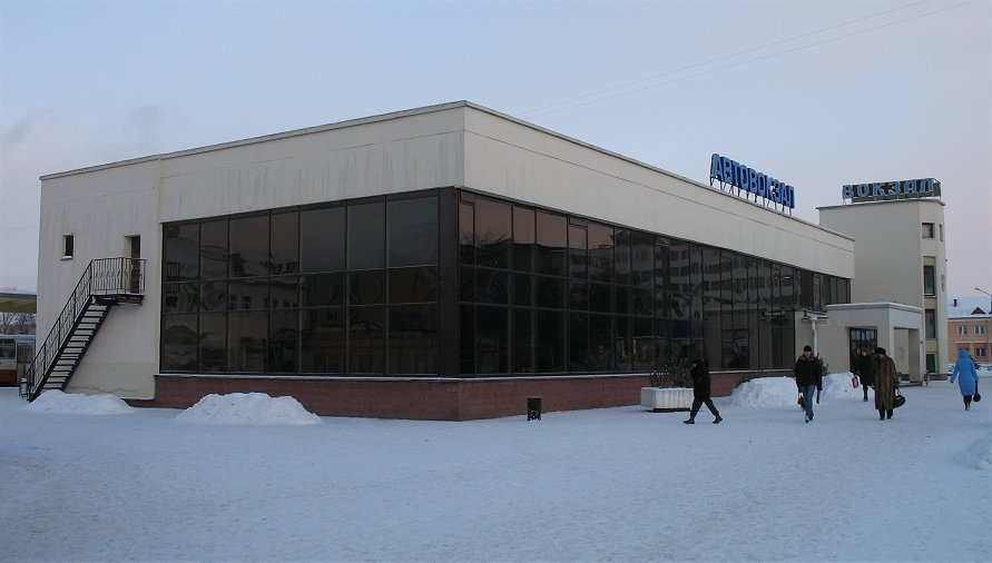 Front view of the bus station of Polatsk (Polotsk) city in the Vitebsk province ([v]oblast), in the northern Belarus.